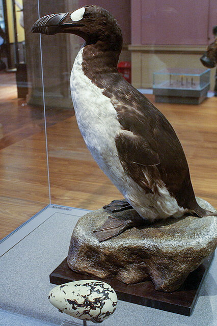 Great Auk (Pinguinis impennis) specimen (Bird no. 8, the Glasgow Auk) and replica egg, Kelvingrove, Glasgow. A lost part of the biogeography of Britain, and the only flightless bird that has bred in Europe in historical times. The last Great Auk in Britain was killed on Stac-an-Armin, St Kilda, in about 1840 and the last pair seen alive in the world was caught and throttled on the island of Eldey, Iceland, in 1844. Proven breeding sites for the Great Auk are few: in Britain, St Kilda was the only certain site and much of our knowledge of the species in life comes from the description given by Martin Martin following his visit there in 1697. Papa Westray in Orkney was another known haunt, with William Bullock gaining some infamy in the early 19th century for his attempts to capture the pair there, although there is no actual proof that they bred there. Bones are, however, common around early human habitations in Scotland and while these could have been brought from elsewhere, many paleozoologists suspect that there were several large colonies in Scotland which were largely wiped out by early Neolithic hunter-gatherers. As suggested by the scientific name, the Great Auk is also probably the original 'penguin', the name assumed to be from the Welsh for white head, referring to the white flash on the forehead. Early visitors to the Antarctic presumably transferred the name to the superficially similar but unrelated birds they found there. Nowadays, according to Errol Fuller in his book on Extinct Birds, there are just 78 Great Auk skins and about 75 eggs left in existence.